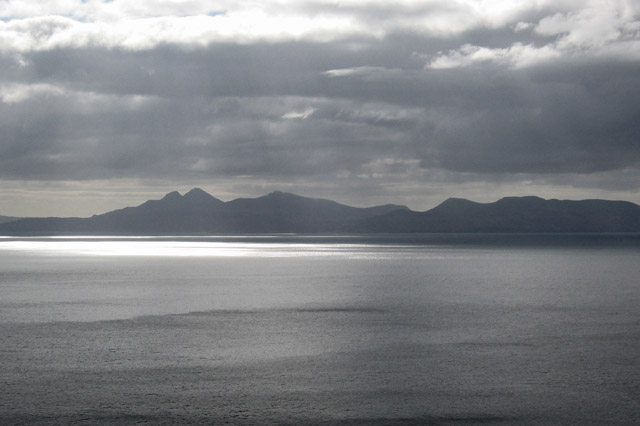 Rum from Sgurr an Duine The view to Rum from the cliff top of Sgurr an Duine. A heavy, blustery, but thankfully brief hail shower had just passed over us on this otherwise sunny day. The picture shows the shower heading away across the sea to Rum, creating some interesting patterns of light and shade as it travels.